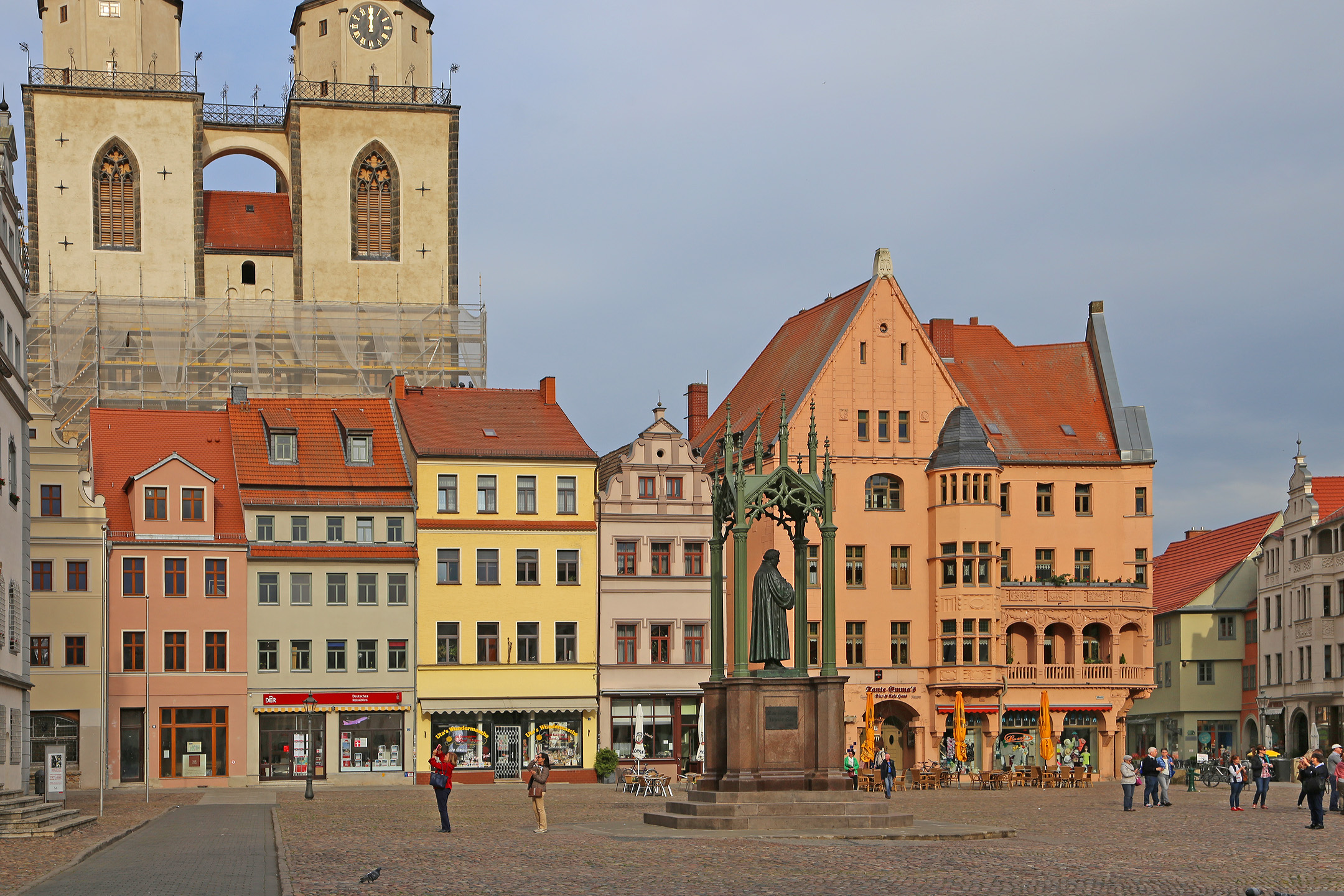 Wittenberg (Germany) - Building on the market square.